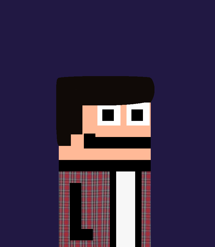 Made in Microsoft Paint